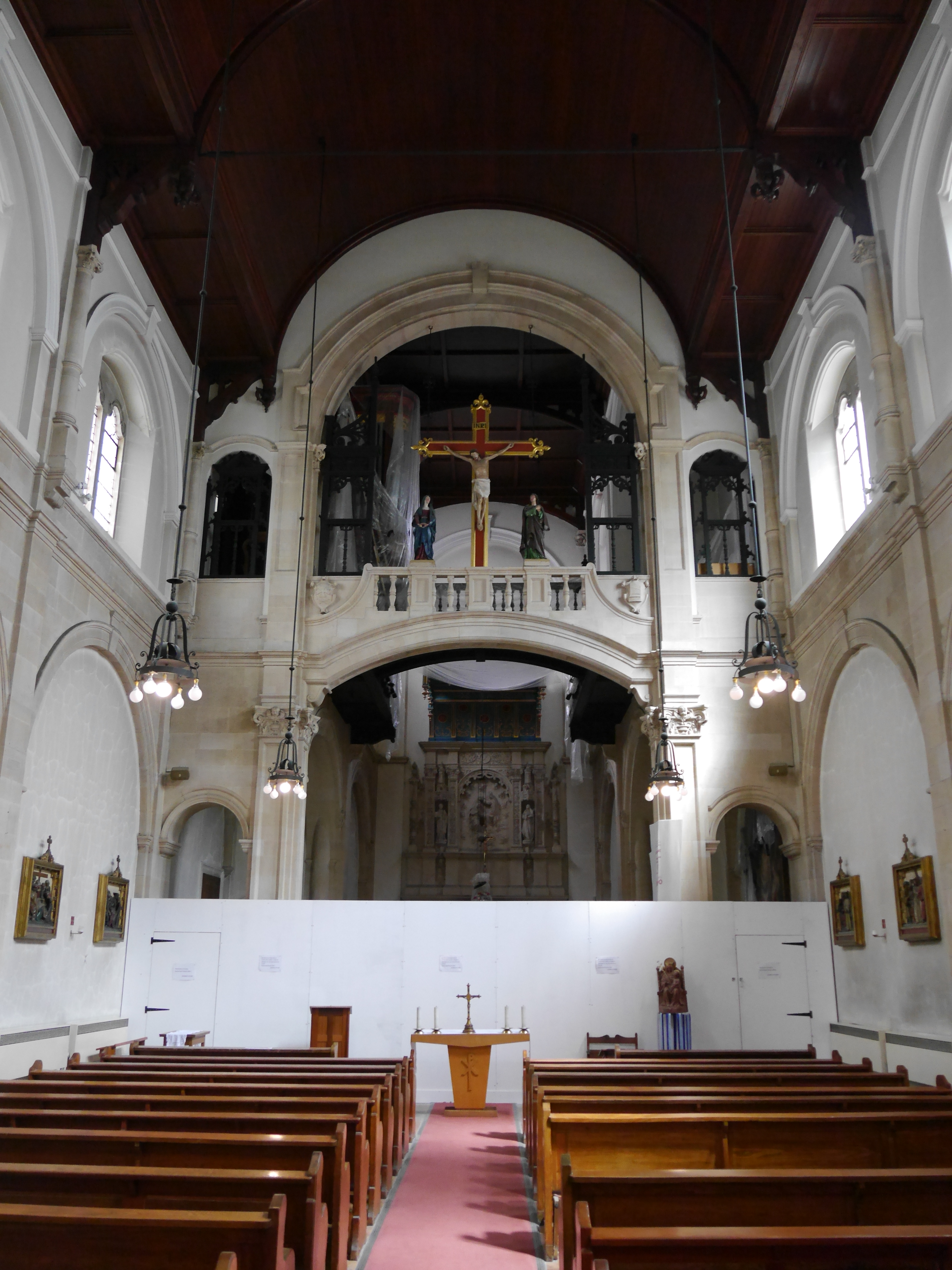 Church of St Anselm and St Cecilia, Kingsway, London, August 2015